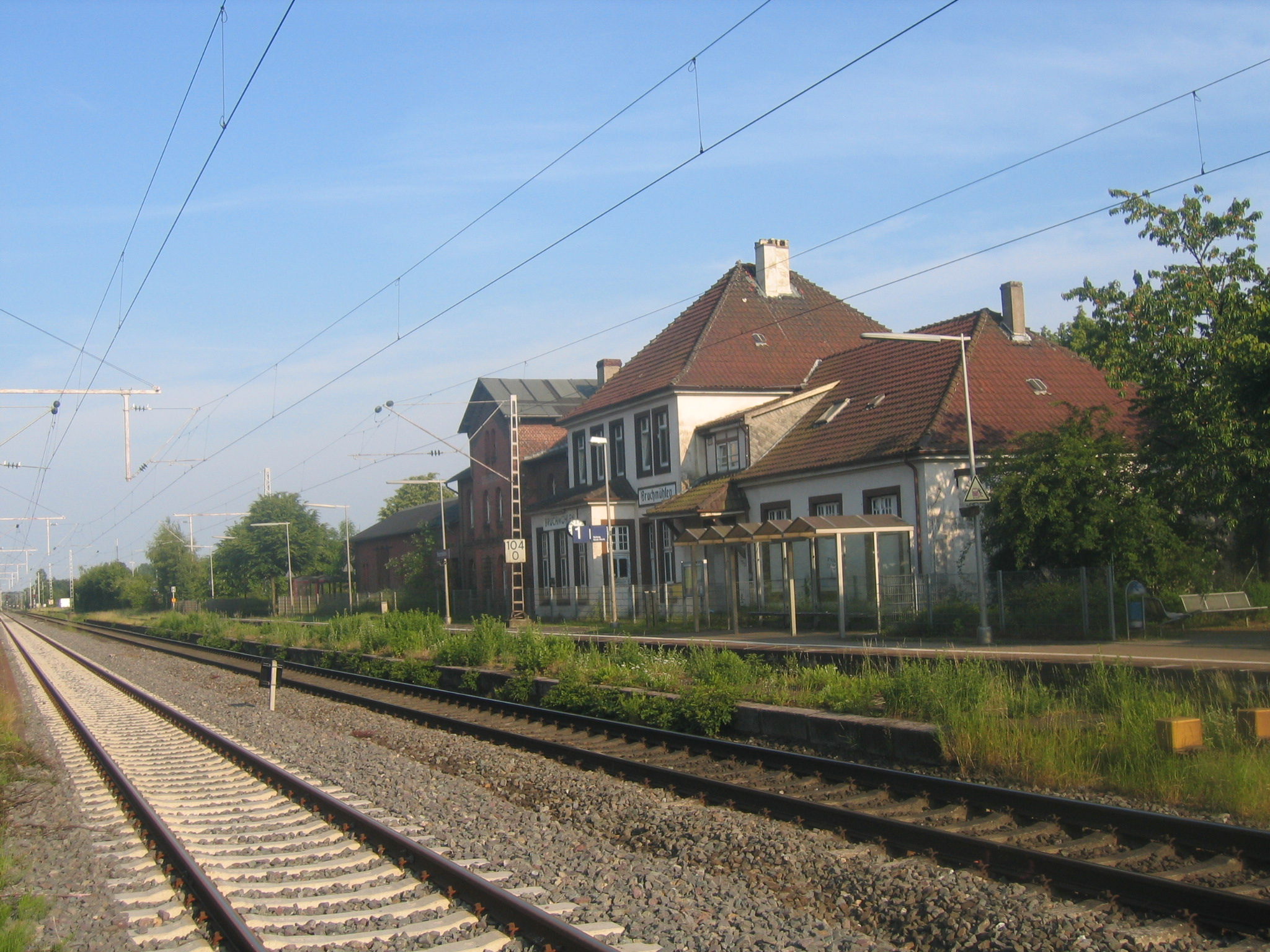 Bruchmühlen train station in Melle-Bruchmühlen, District of Osnabrück, Lower Saxony, Germany.